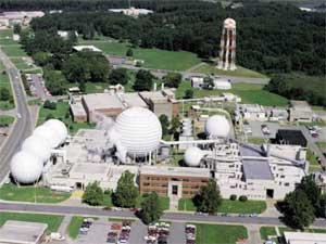 Langley Research Center in Virgina (USA), aerial view.